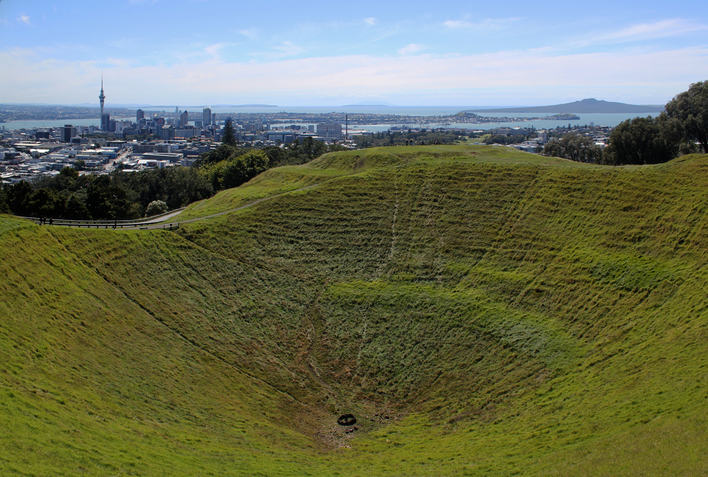 Looking into and across Mount Eden crater from near the summit, with various Auckland landmarks visible beyond (from left to right, the Sky Tower and central business district, hospital, Devonport peninsula, and then along the horizon, Whangaparaoa Peninsula, Tiritiri Matangi and Little Barrier Islands, and Rangitoto Island).